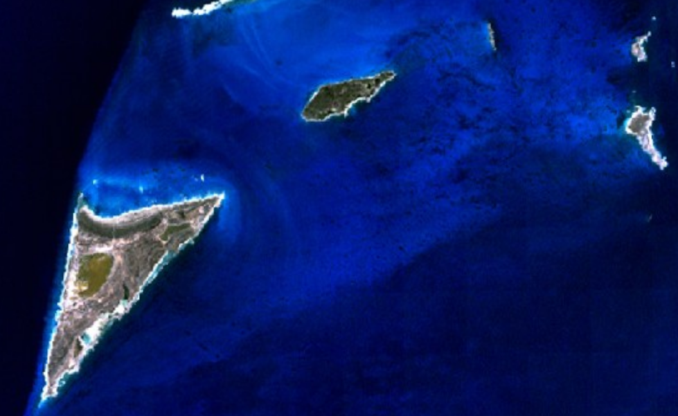 Satellite Image of Salt Cay (lower left) and neighboring islets. It is the second largest of the Turks Islands.